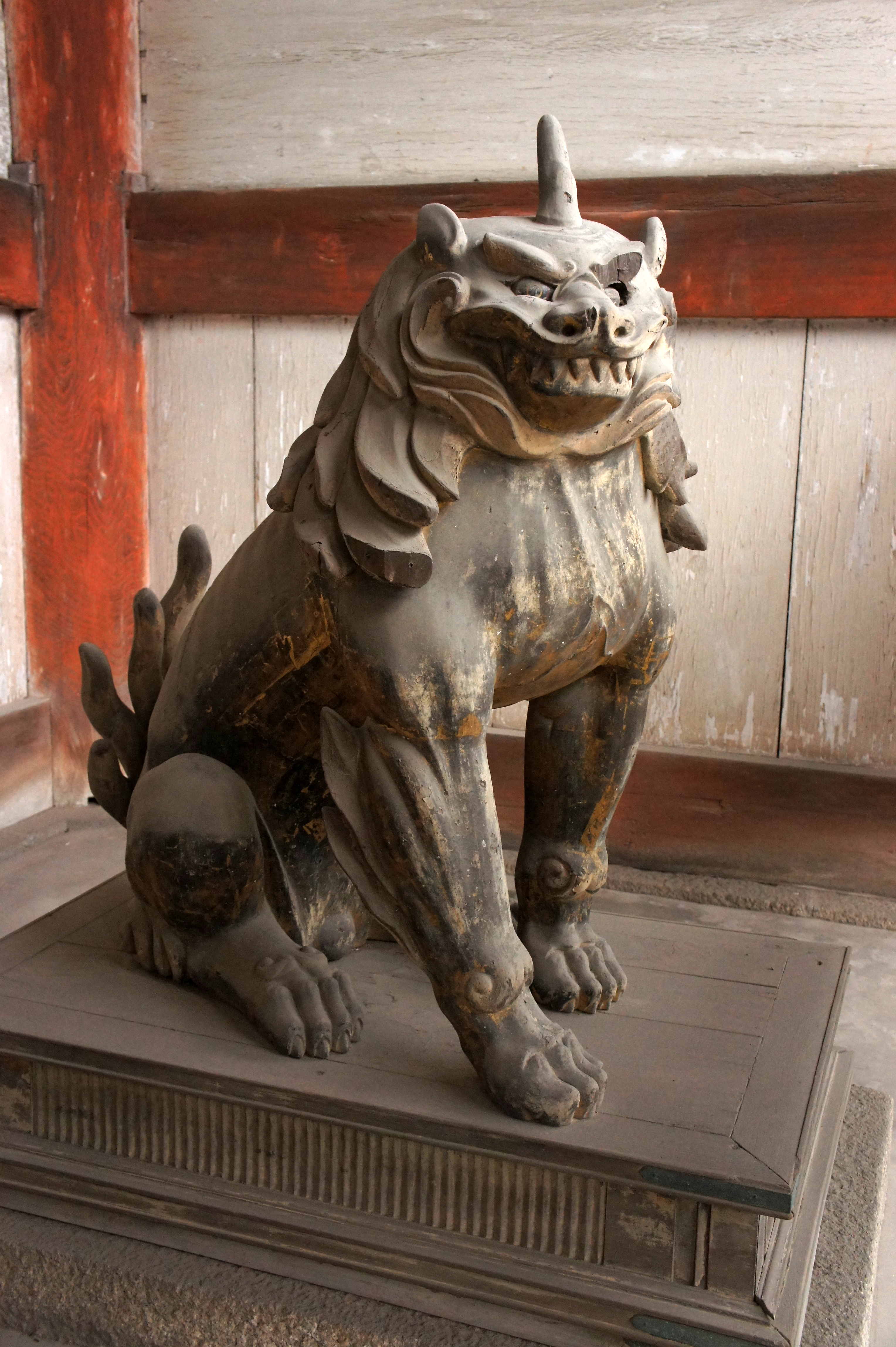 Ninna-ji's Nio Gate in Ukyō-ku, Kyoto, Kyoto Prefecture, Japan. Ninna-ji was registered as part of the UNESCO World Heritage Site "Historic monuments of ancient Kyoto".